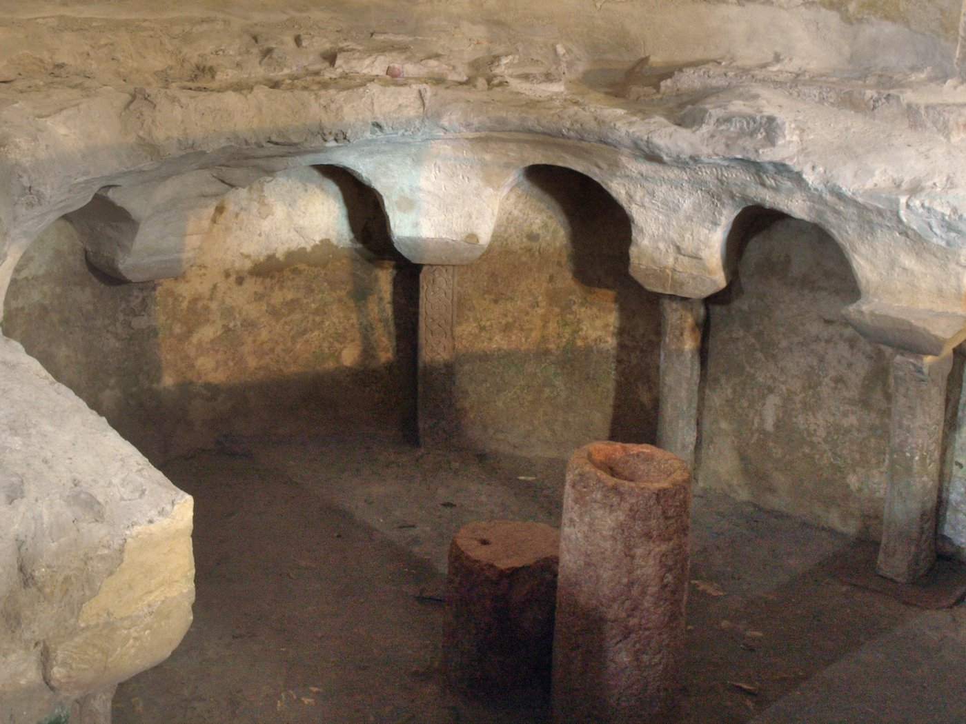 Church of San Severo in Bardolino (Italy), crypt photo 2011